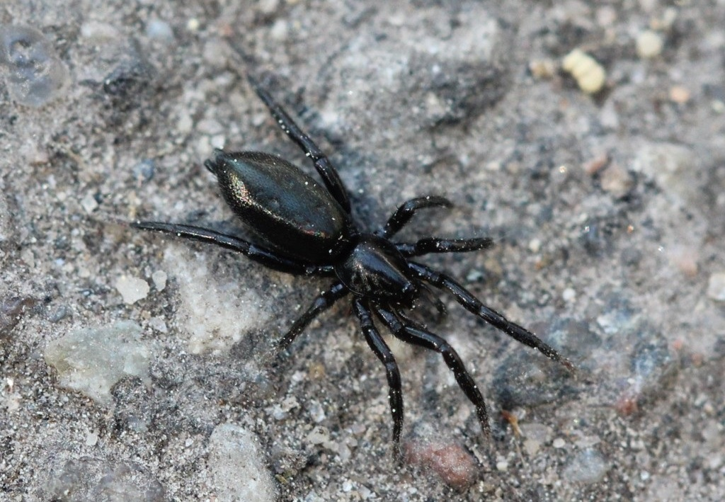 Zelotes subterraneus